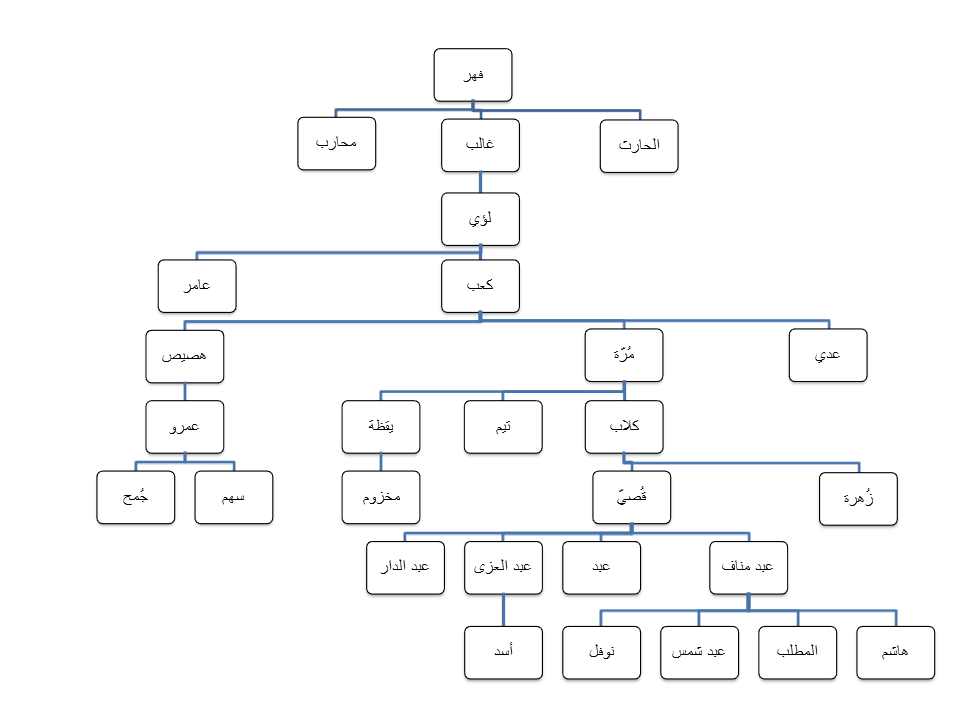 شجرة نسب لبطون قبيلة قريش